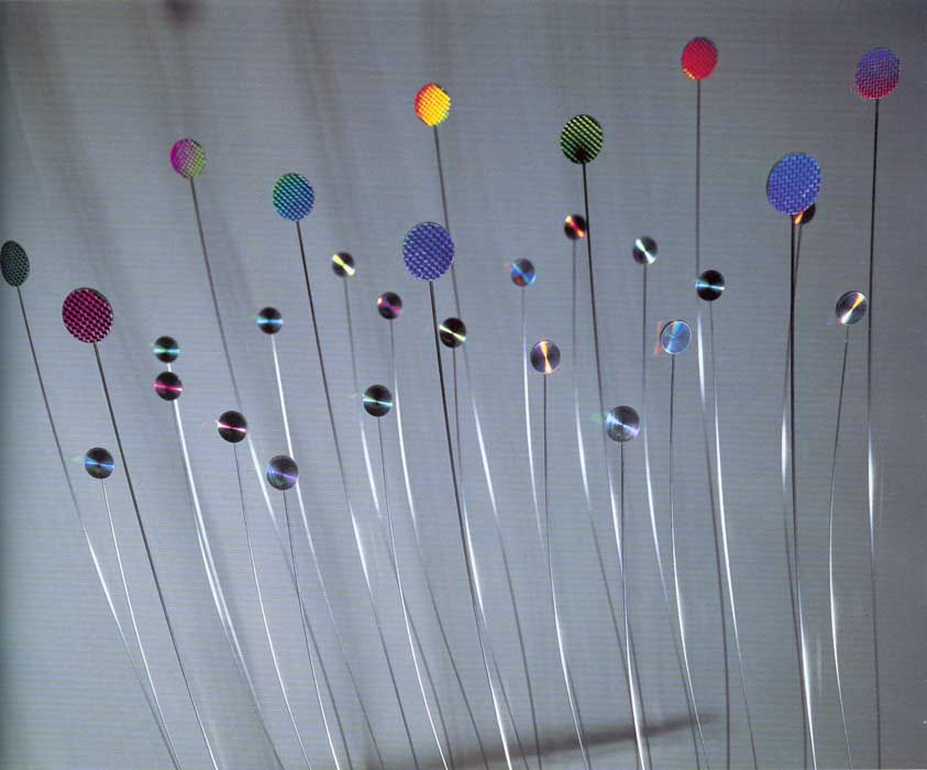 Tsai's Double Diffraction, 1972